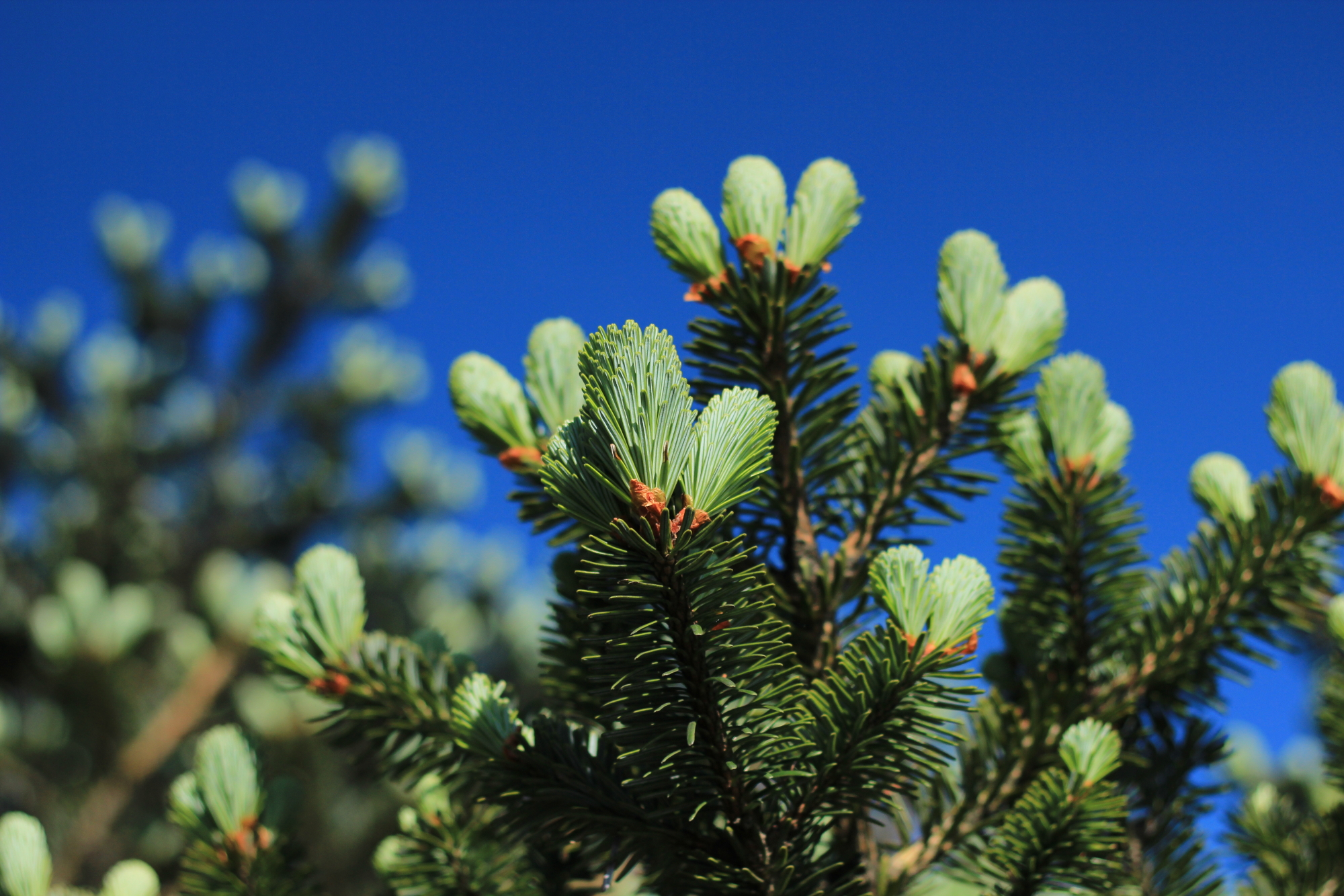 The bright new leaves grow on top while the older and darker ones remain below. This photograph was taken in a clear morning at Sandakphu.